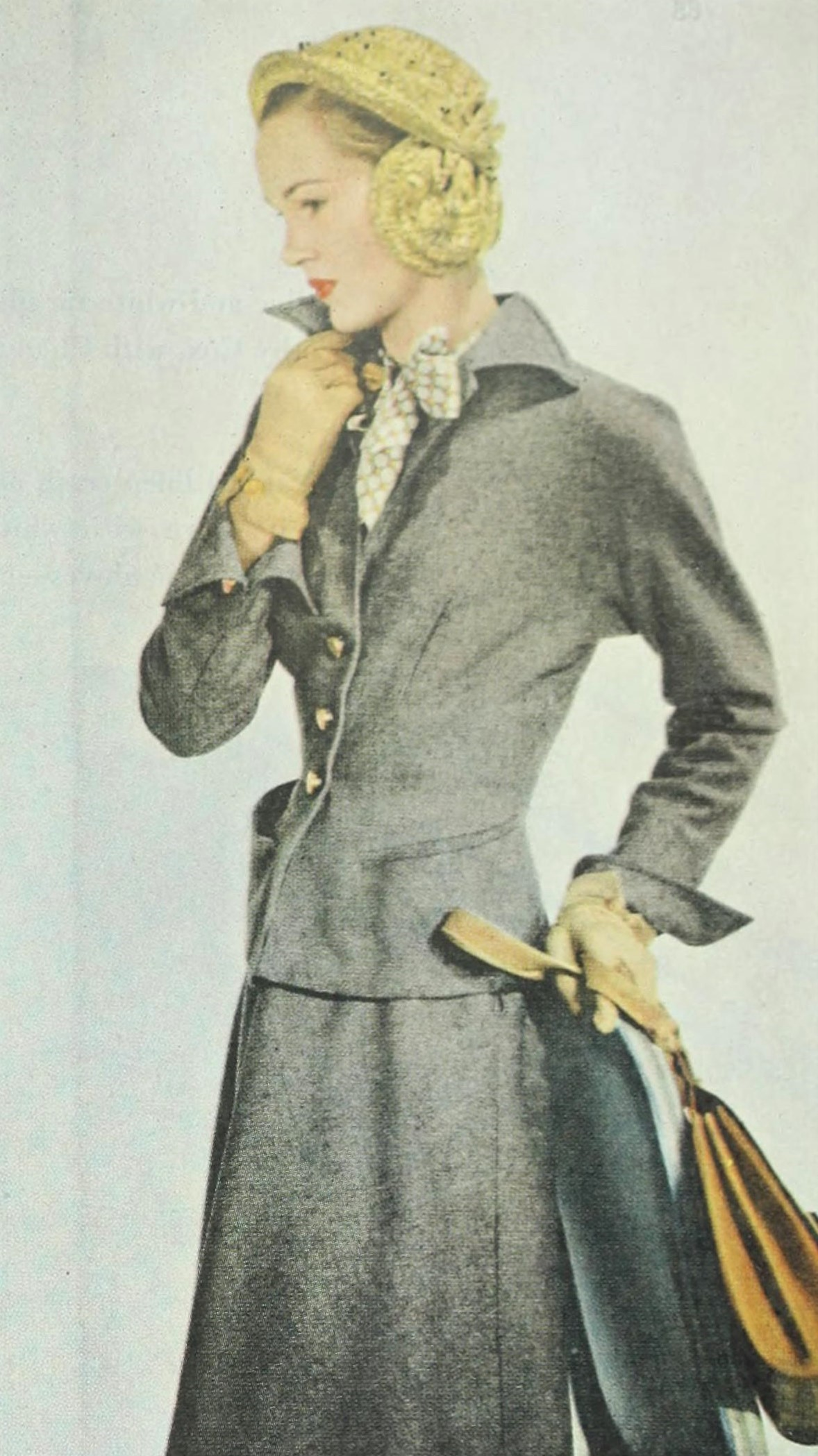 Suit by Pauline Trigère, hat by Hattie Carnegie. Advertisement in Ladies' Home Journal, 1948